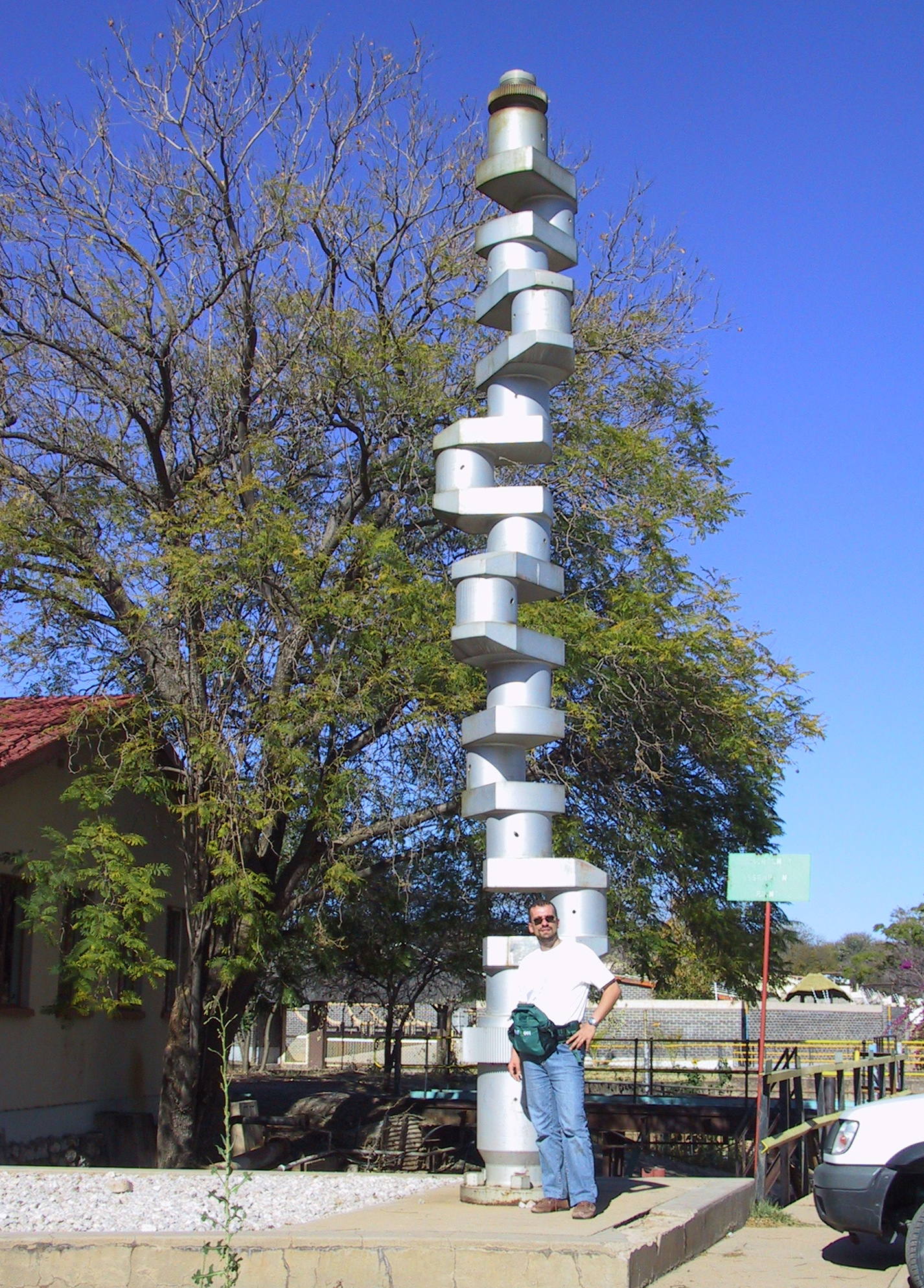 6L crankshaft of big diesel engine